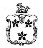 The coat of arms of the Sebright Baronets. The arms are three cinquefoils and the crest is a tiger.